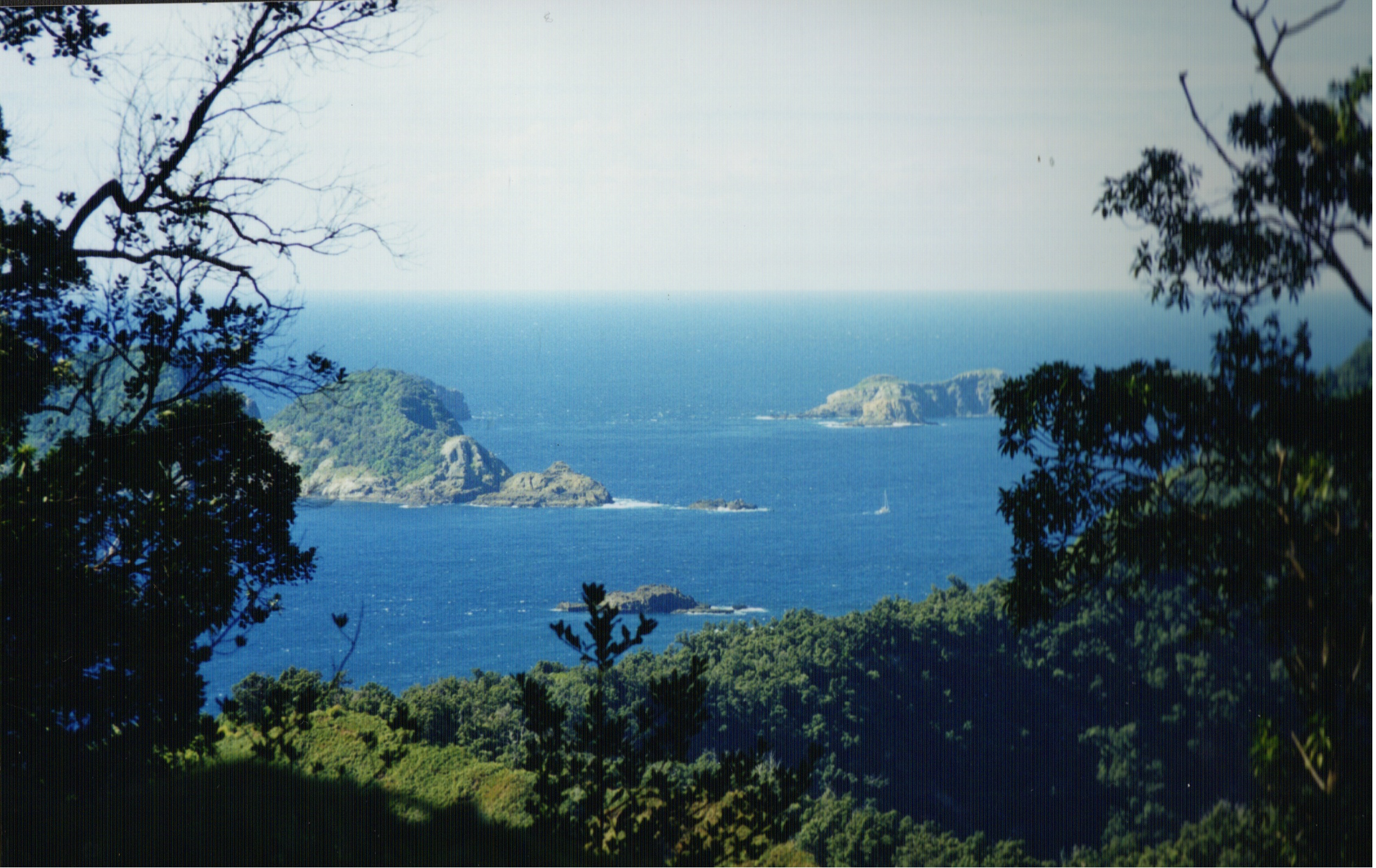 Meyer Islands (Center Left), Dayrell Island (Center Right), Egeria Rock (foreground), Chanter Island (in the trees on the right) and Nugent Island in the trees on the very left. View from Raoul Island, Kermadec Islands, New Zealand